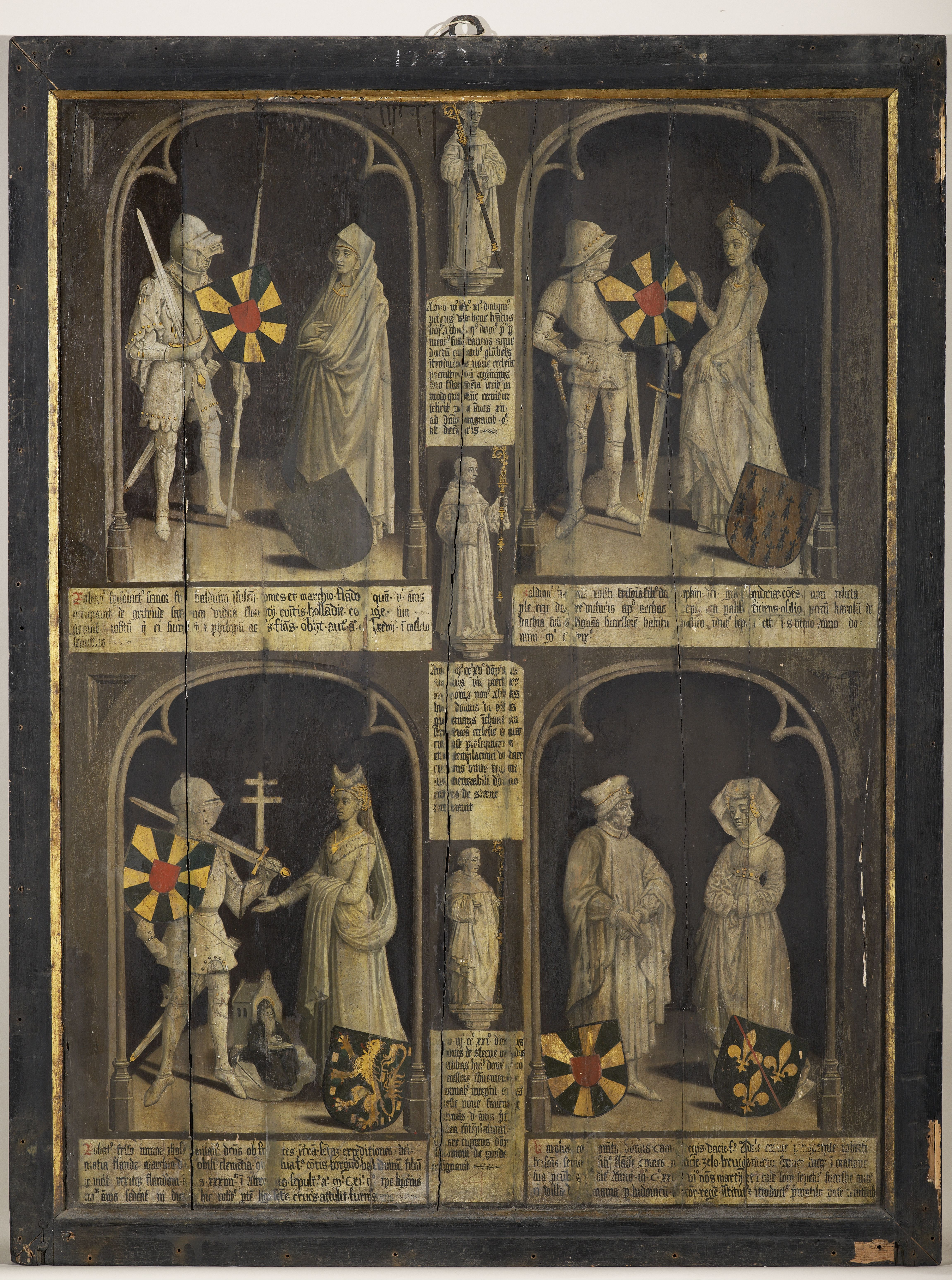 Part of a series of 17 paintings of counts of Flanders and abbots of Ten Duinen